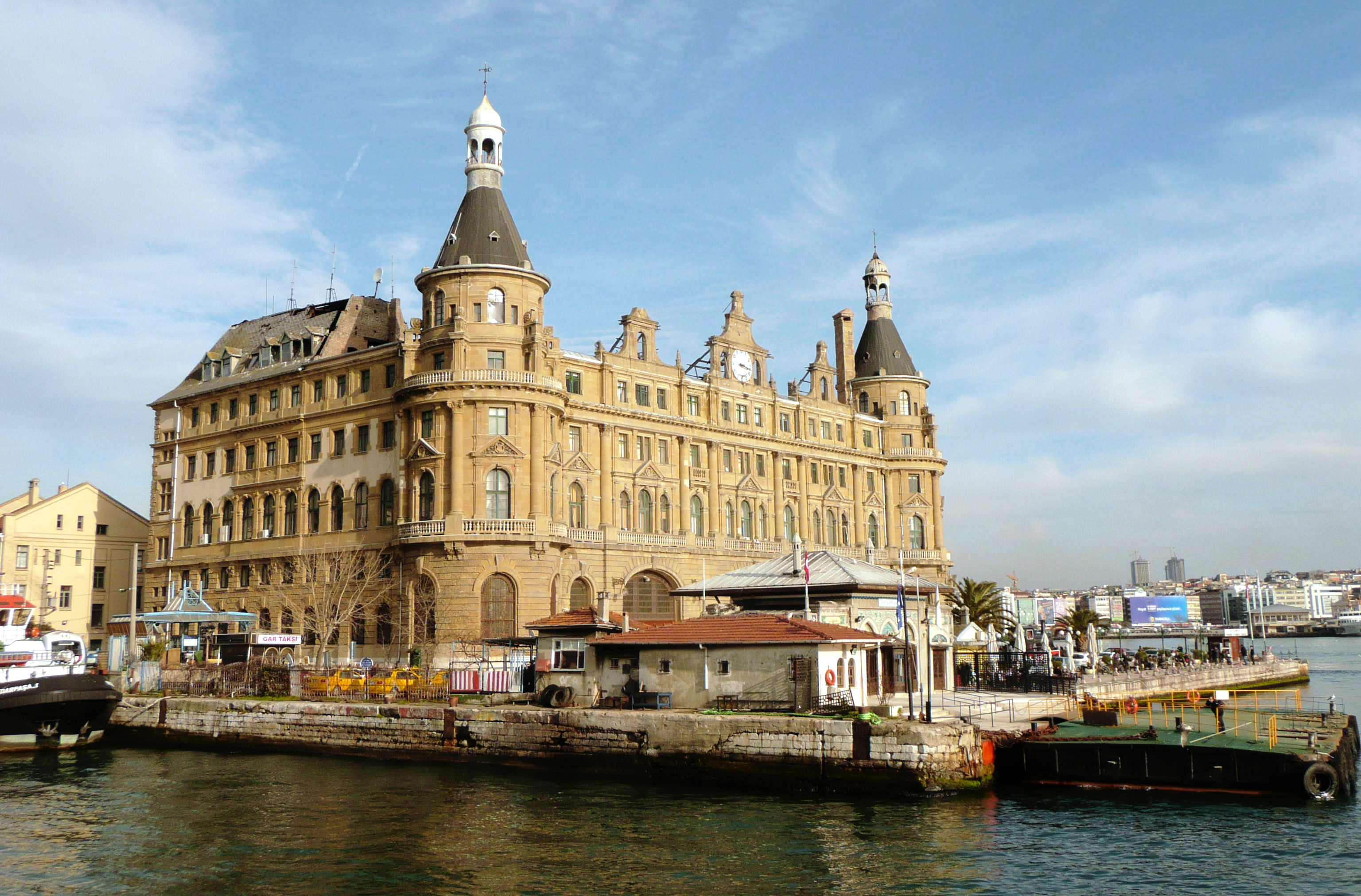 The Haydarpaşa Terminal or Haydarpaşa Station (Turkish: Haydarpaşa Garı) is a major intercity rail station and transportation hub in Kadıköy, İstanbul. It is the busiest rail terminal in Turkey and the Middle East and one of the busiest in Eastern Europe.